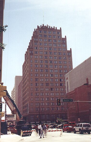 Courtyard by Marriott Fort Worth Downtown-Blackstone in 2000.